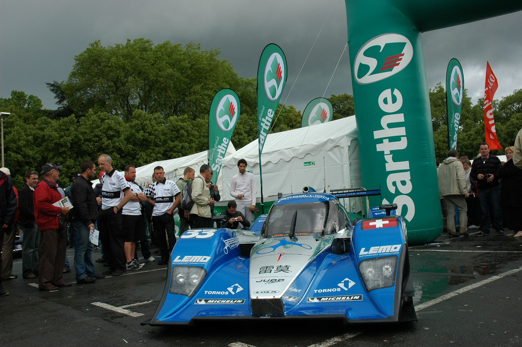 Speedy Racing Team Sebah's Lola B08/80-Judd at scrutineering for the 2009 24 Hours of Le Mans